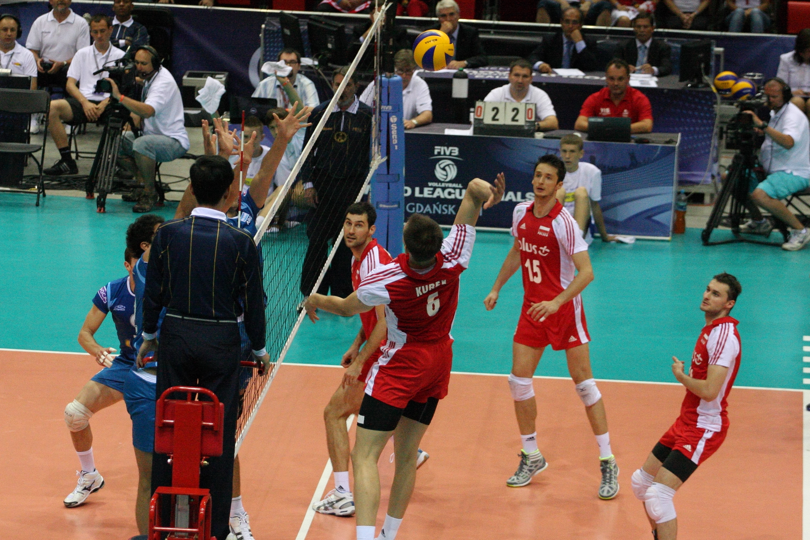 World League Final, Gdańsk 2011 Poland vs Argentina; (3:0)